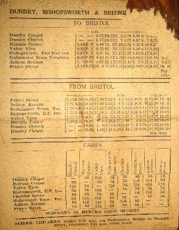 Photo by the contributor.Duncanogi (talk) 17:21, 7 July 2009 (UTC)